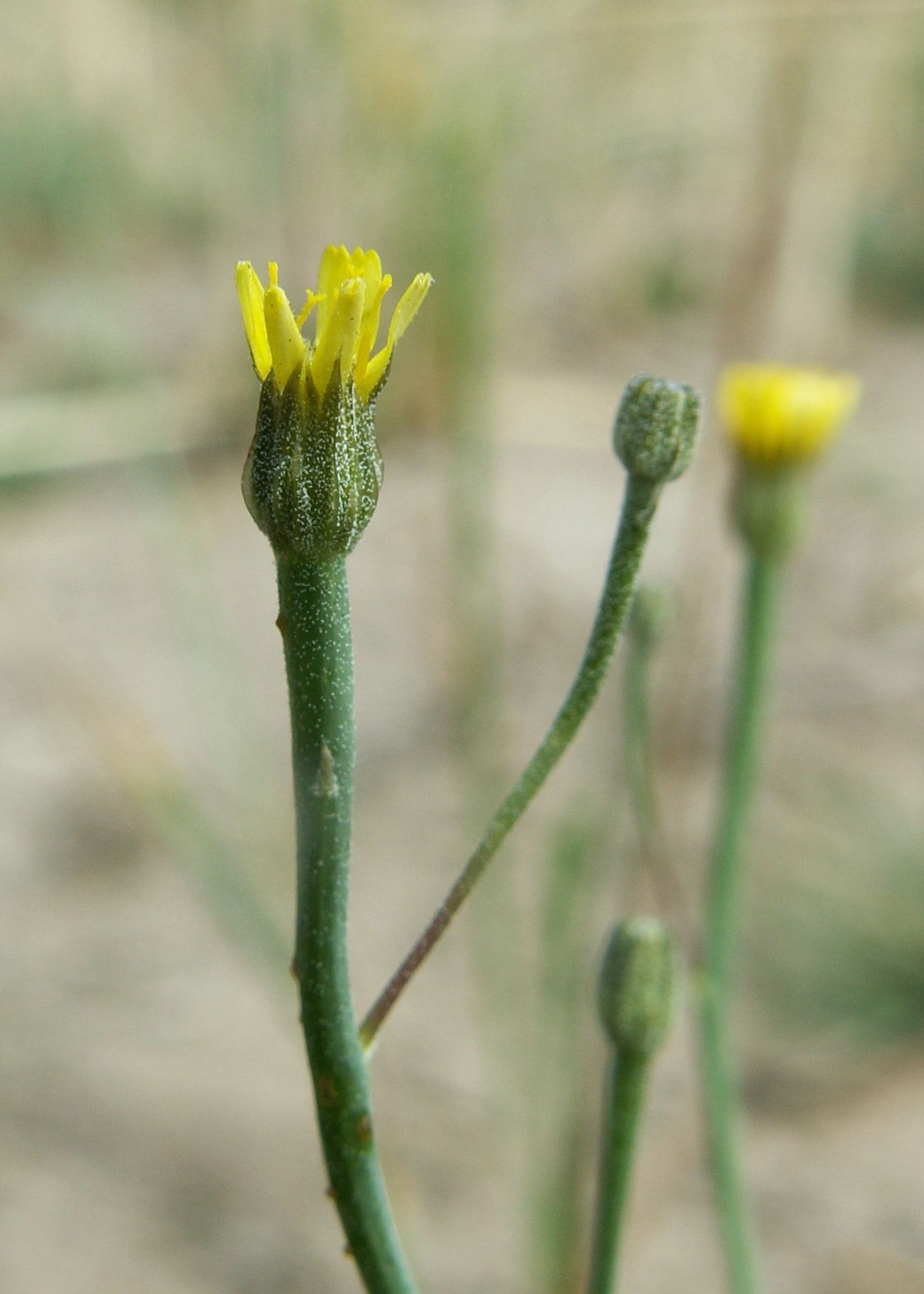 Arnoseris minima in Komarowo near Goleniów, NW Poland